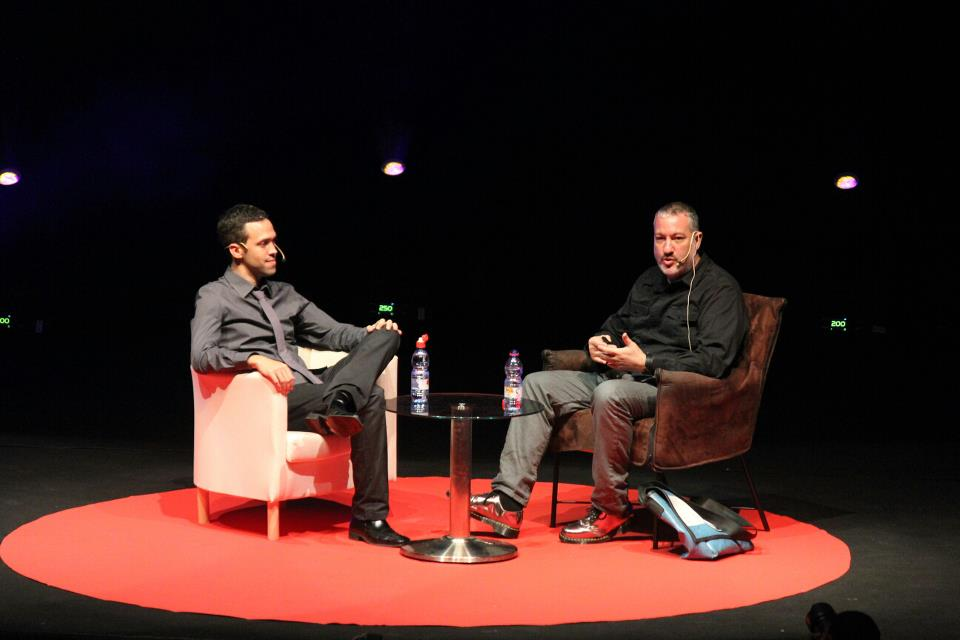 Israeli Photographer Roie Galitz with Spencer Tunick at the 2012 Israeli Photography Conference